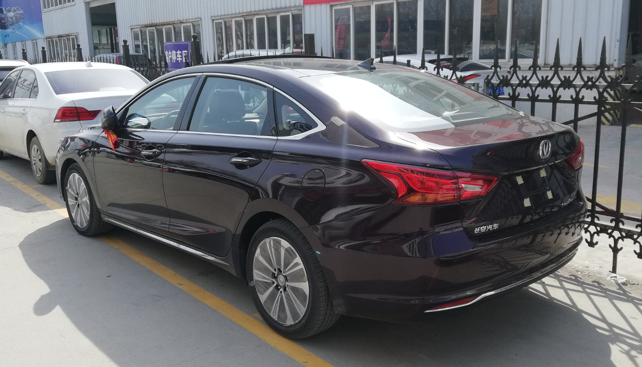 Chang'an Raeton CC photographed in Zhengzhou, Henan province, China.